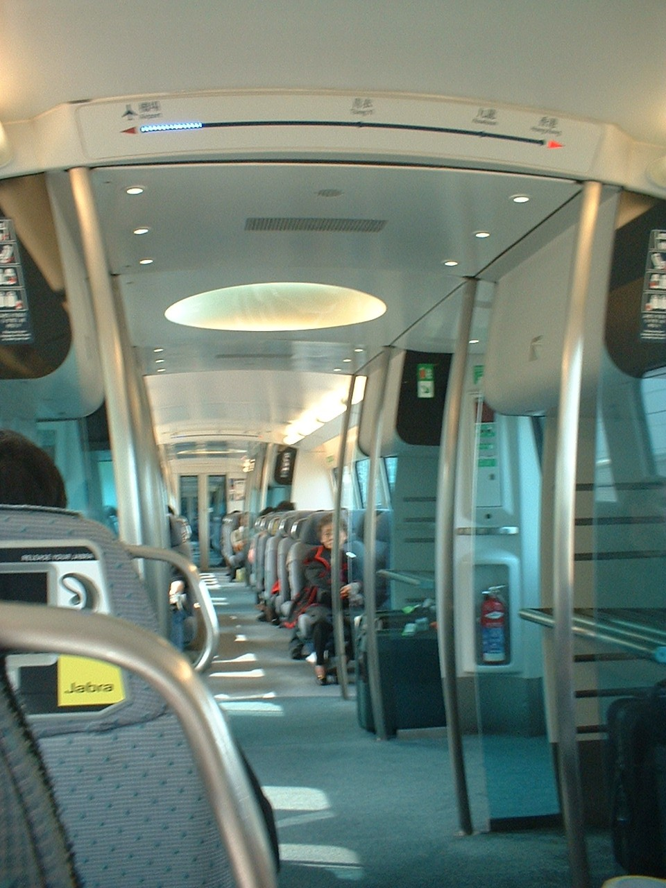 Interior of the MTR Airport Express, MTR Hong Kong.